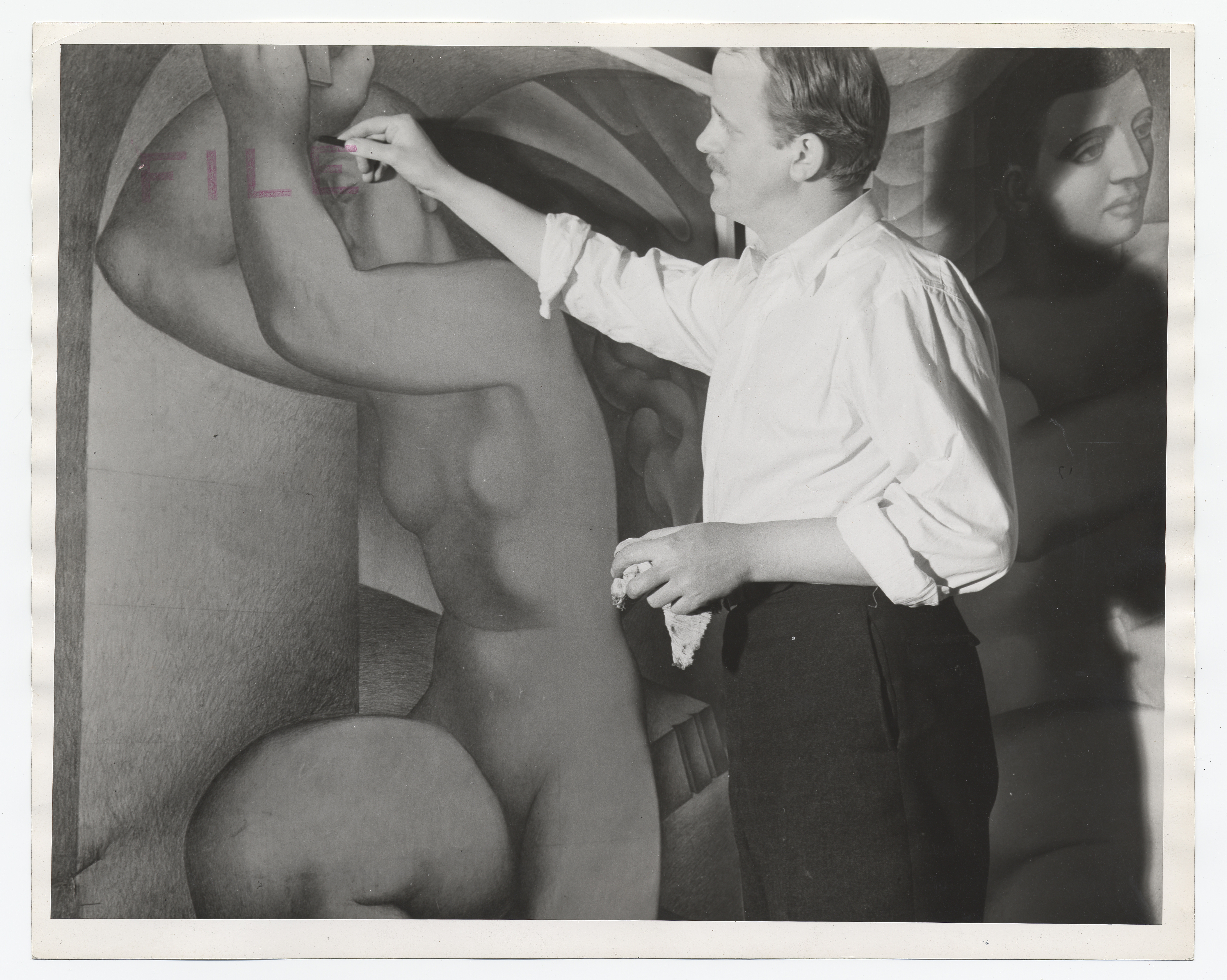 Mose working on Lincoln Hospital murals.Identification on verso, left (handwritten and stamped) : Title: Lincoln Hospital Murals; Artist: Eric Mose Identification on verso, right (handwritten and stamped): Federal Art Project W.P.A.; Photographic Division; 235 East 42nd Street; New York CityDate: 5/16/38; Negative No.: 2996-4; Photographer: Eagle.